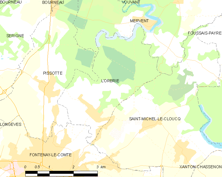 Map of French municipality L'Orbrie